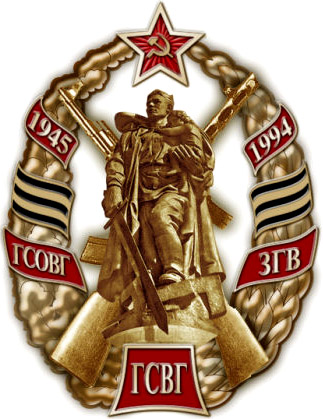 Inofficial Unit badge (also: Commemorative Medal) of the «Group of Soviet Forces in Germany» of the Soviet Army 1945-1994, with Supreme Command and Staff in Wünsdorf (unit № 71 650).